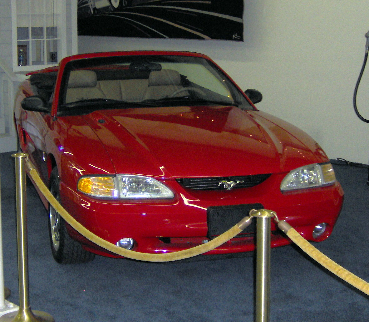 1994 Ford Mustang Cobra Indy Pace Car